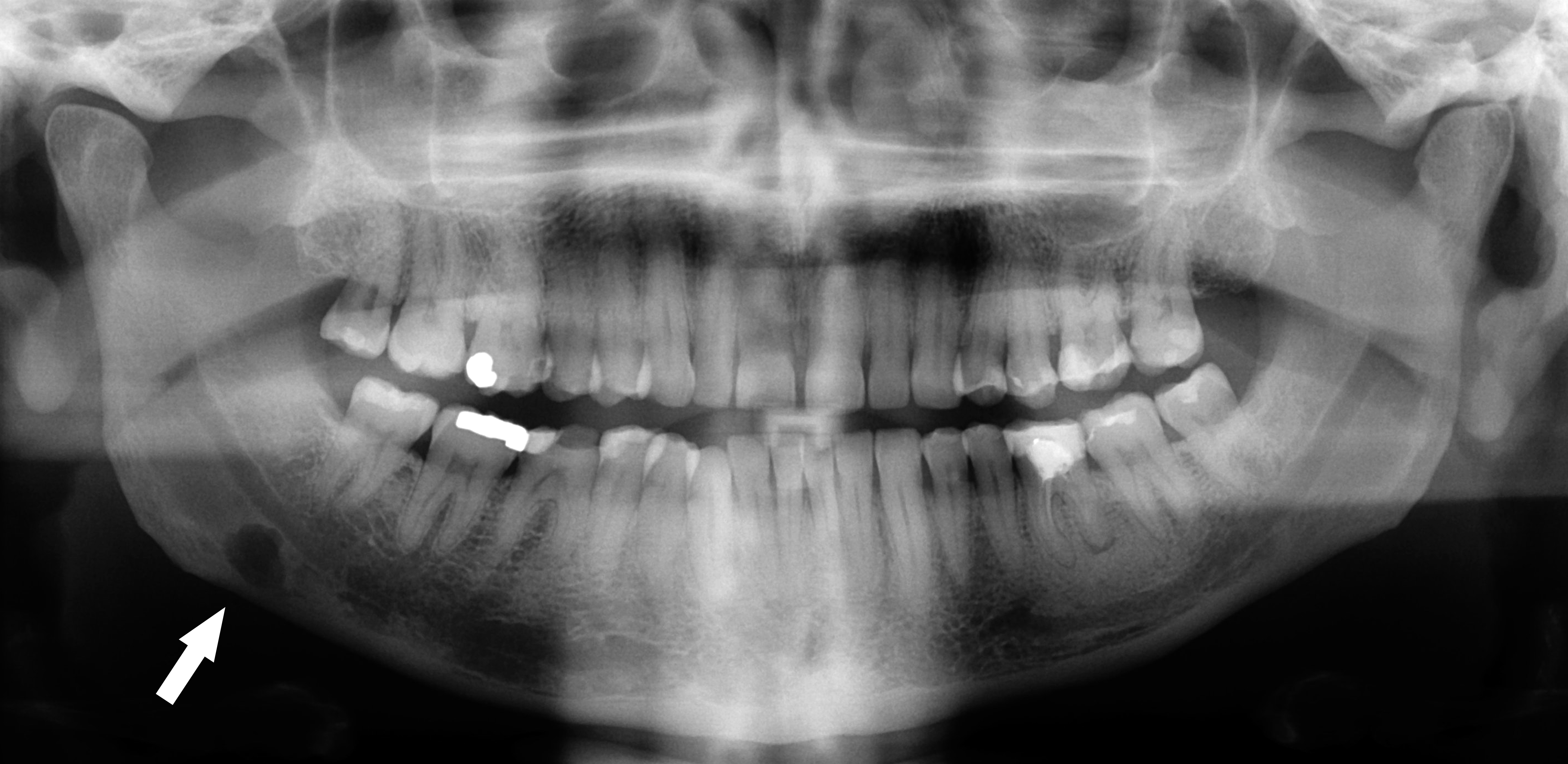 Panorex radiograph taken for routine assessment of wisdom teeth shows lesion in right mandible below the inferior alveolar nerve canal